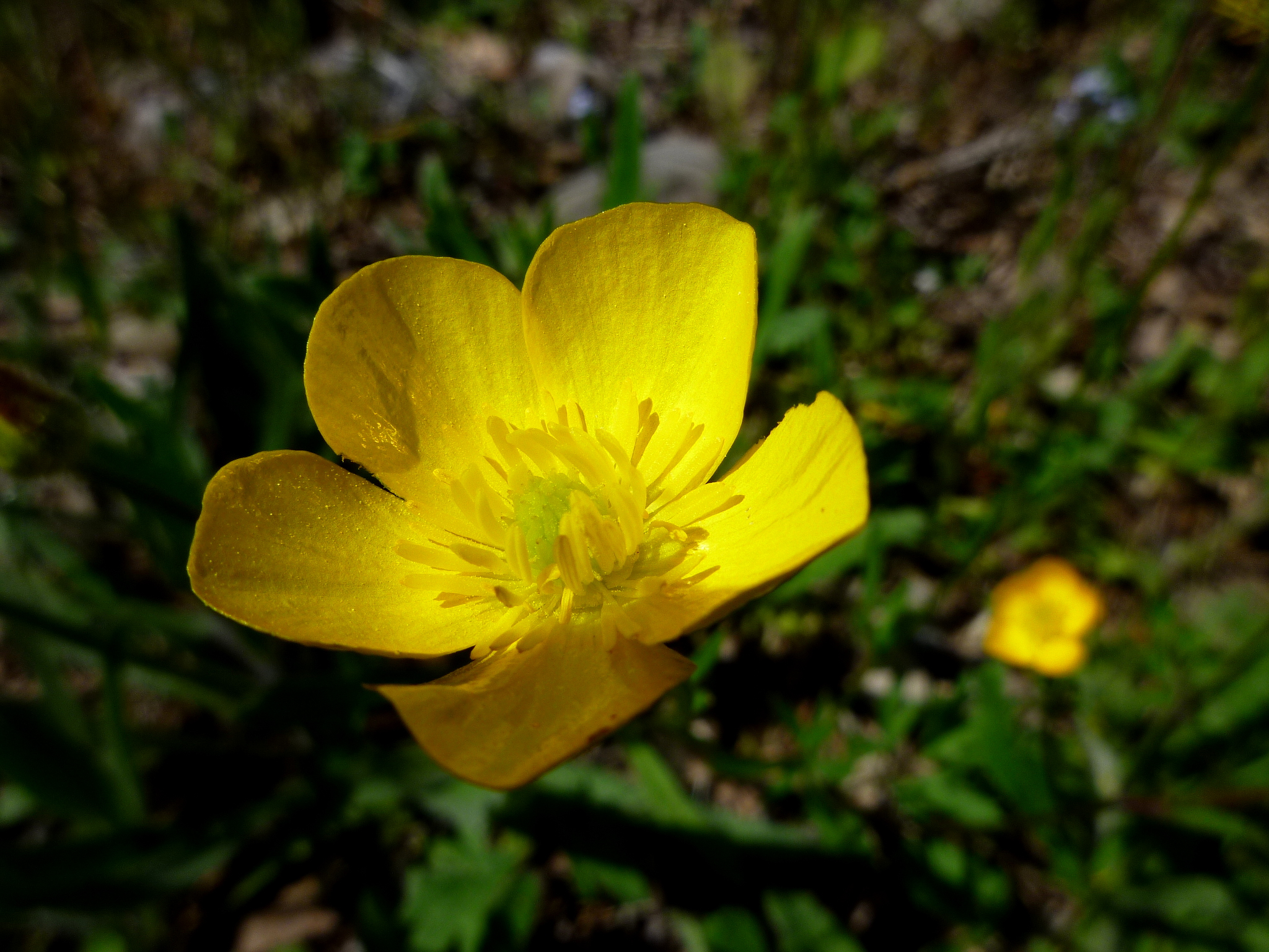 Ranunculus acris. In Guixers (Solsonès-Catalunya). To 850 m. altitude